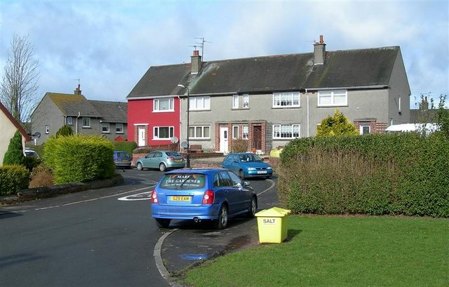 Carrick Drive, Crosshill A small area of Council houses, many of which have been bought by tenants under the Right To Buy scheme.